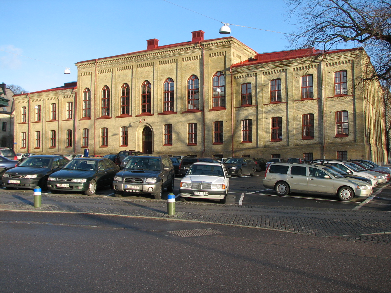 Gamla Latin at Hvitfeldtsplatsen, an old school building in Goteborg.